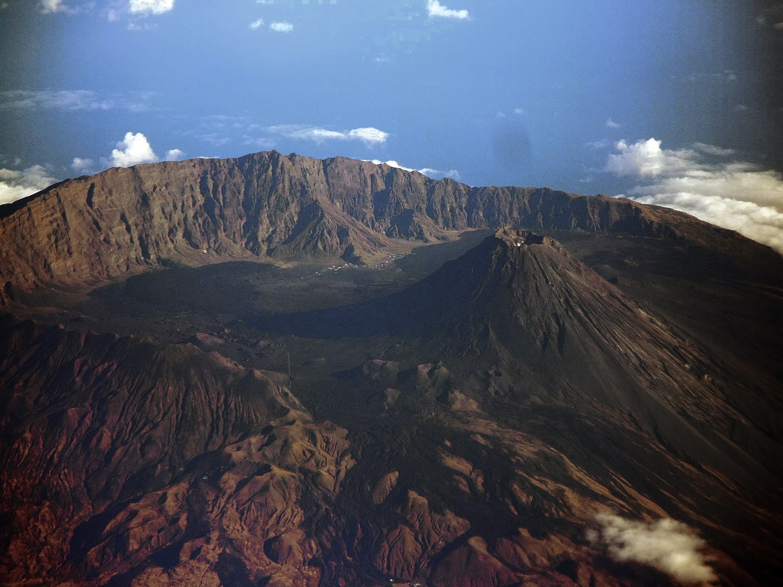 Fogo island aerial shot taken from an Airbus cockpit